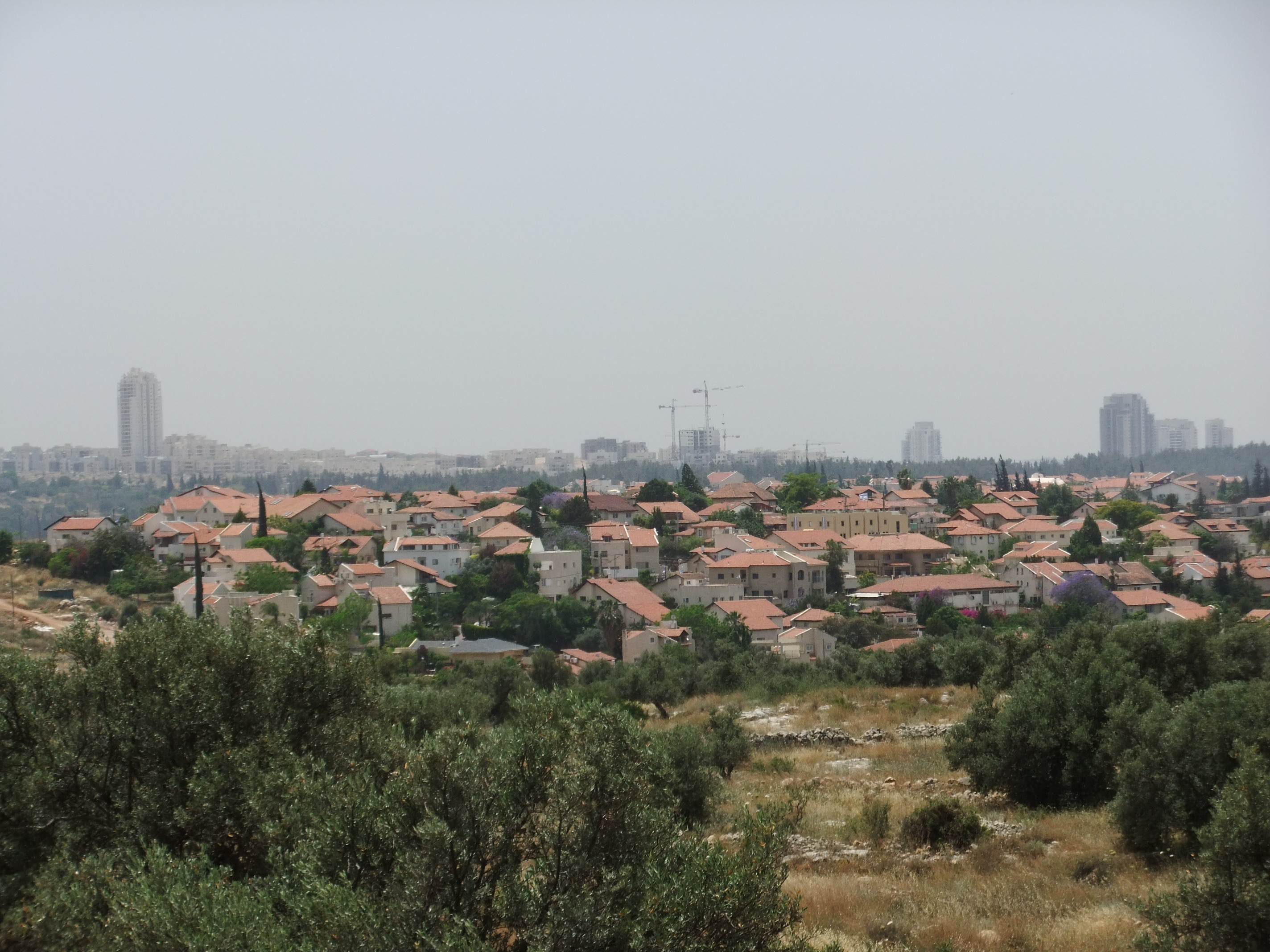 Hashmonaim from the north. The building of Modiin are seen behind